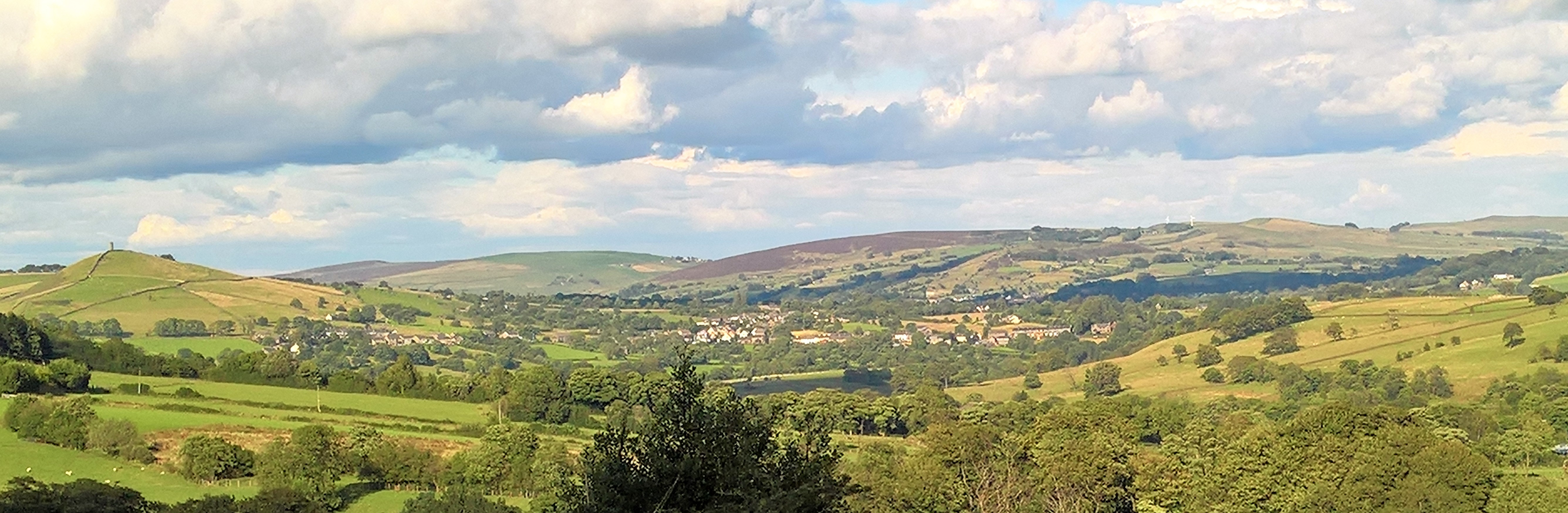 A panorama view of the village of Blacko from the hillside west of Thorneyholme in Barley, Lancashire.